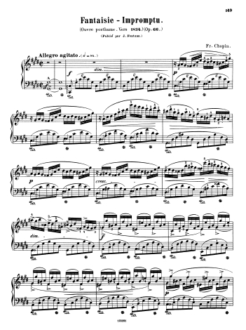 The first page of the published score of Frédéric Chopin's "Fantaisie-Impromptu" for piano, as published by J. Fontana